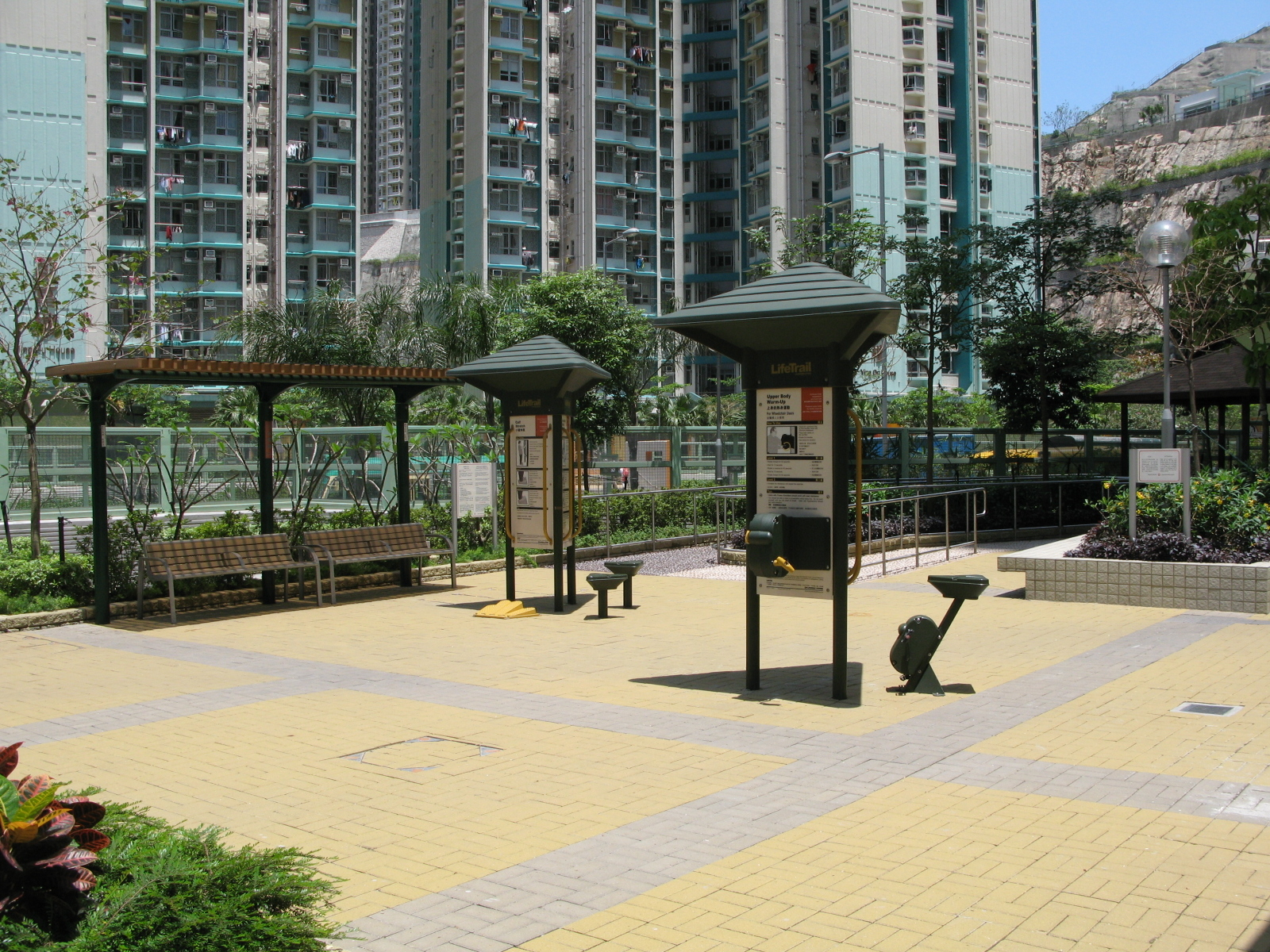 Choi Ying Estate 彩盈邨